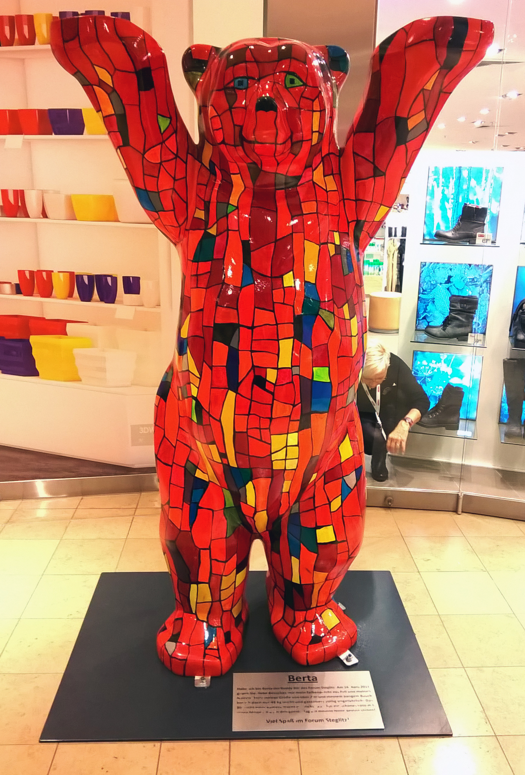 Buddy Baer, "Berta Bär", Schloßstraße 1, Berlin-Steglitz, Germany